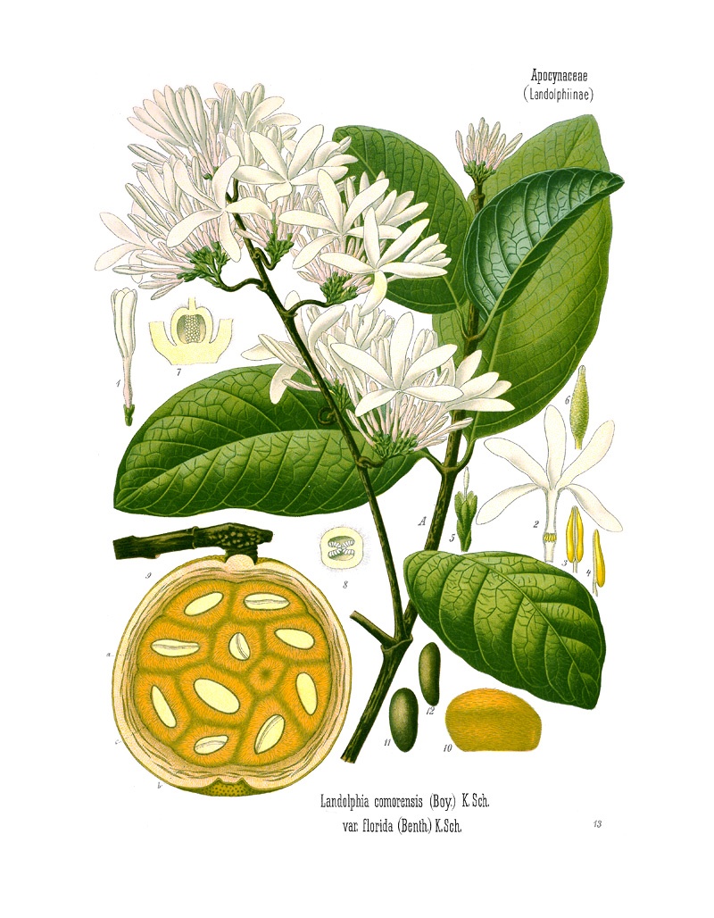 Illustration of LANDOLPHIA comorensis (Boy.) K. Sch. var. florida (Benth.) K. Sch. 13 (Saba comorensis (Bojer ex A.DC) Pichon, )